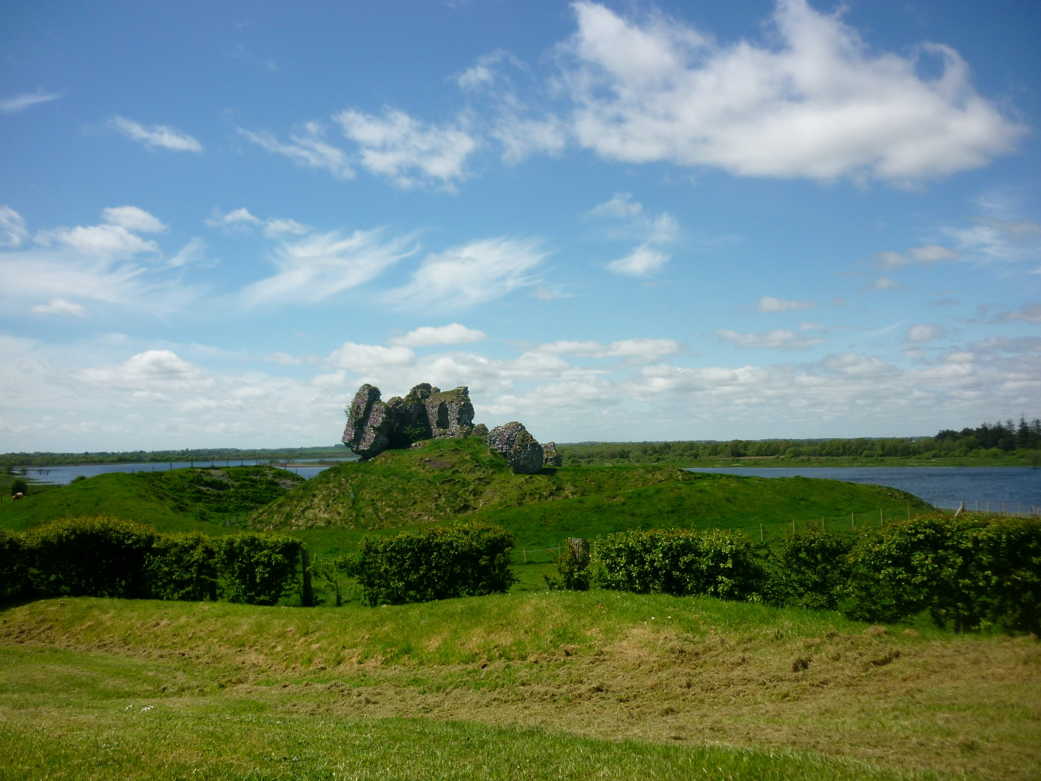 Norman Castle, Ireland